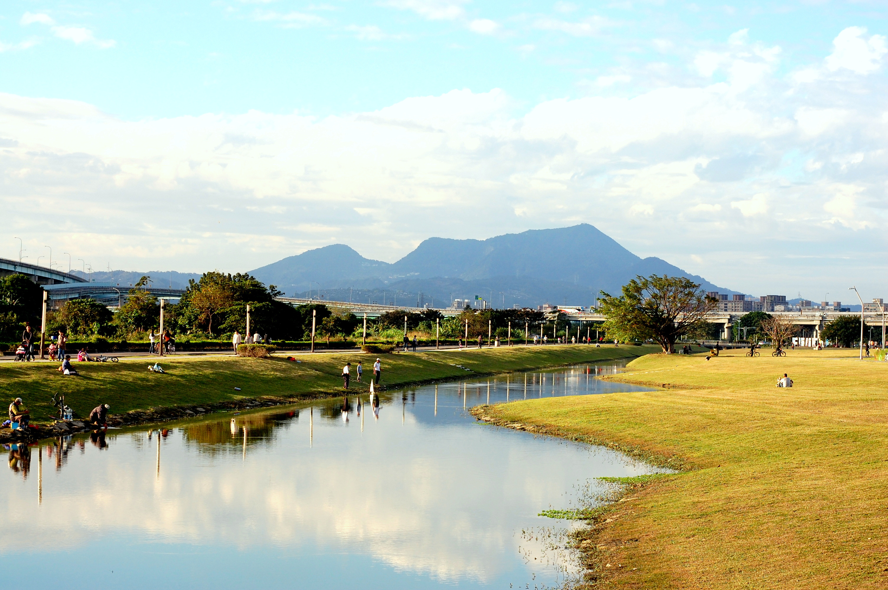 Taipei Metropolitan Park